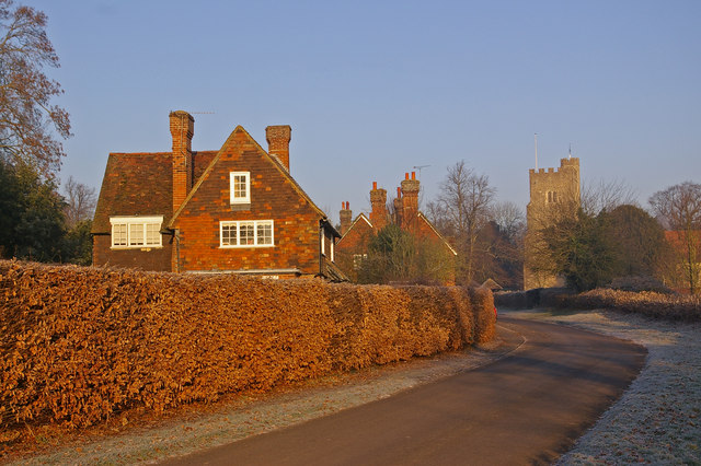 Chevening, near to Chevening, Kent, Great Britain. This small village is set along the eastern boundary of the grounds of Chevening House, the official country residence of the Foreign Secretary.